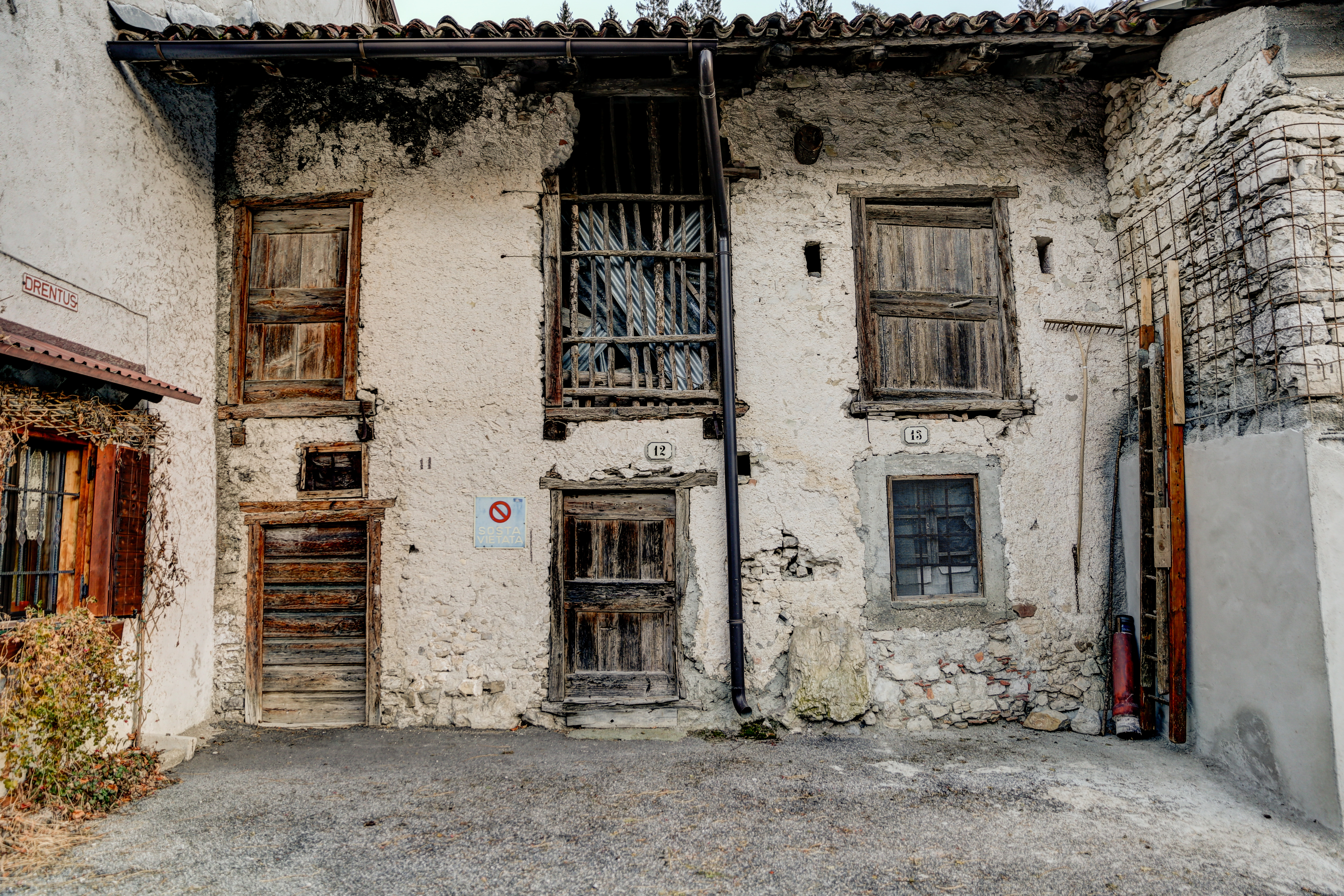 House above Dordolla in the Val d'Aupa in the Carnic Alps, community Moggio Udinese / Friuli-Venezia Giulia / Italy / EU. As a result of the usual Gavelkind in inheritance in Italy the little house has three house numbers and three owners.